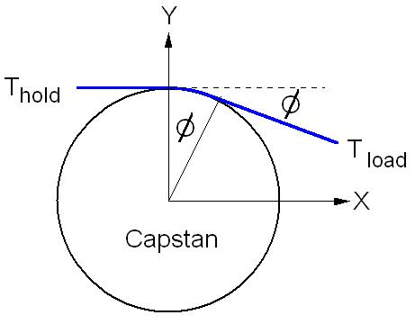 A force diagram to support the derivation of the capstan equation